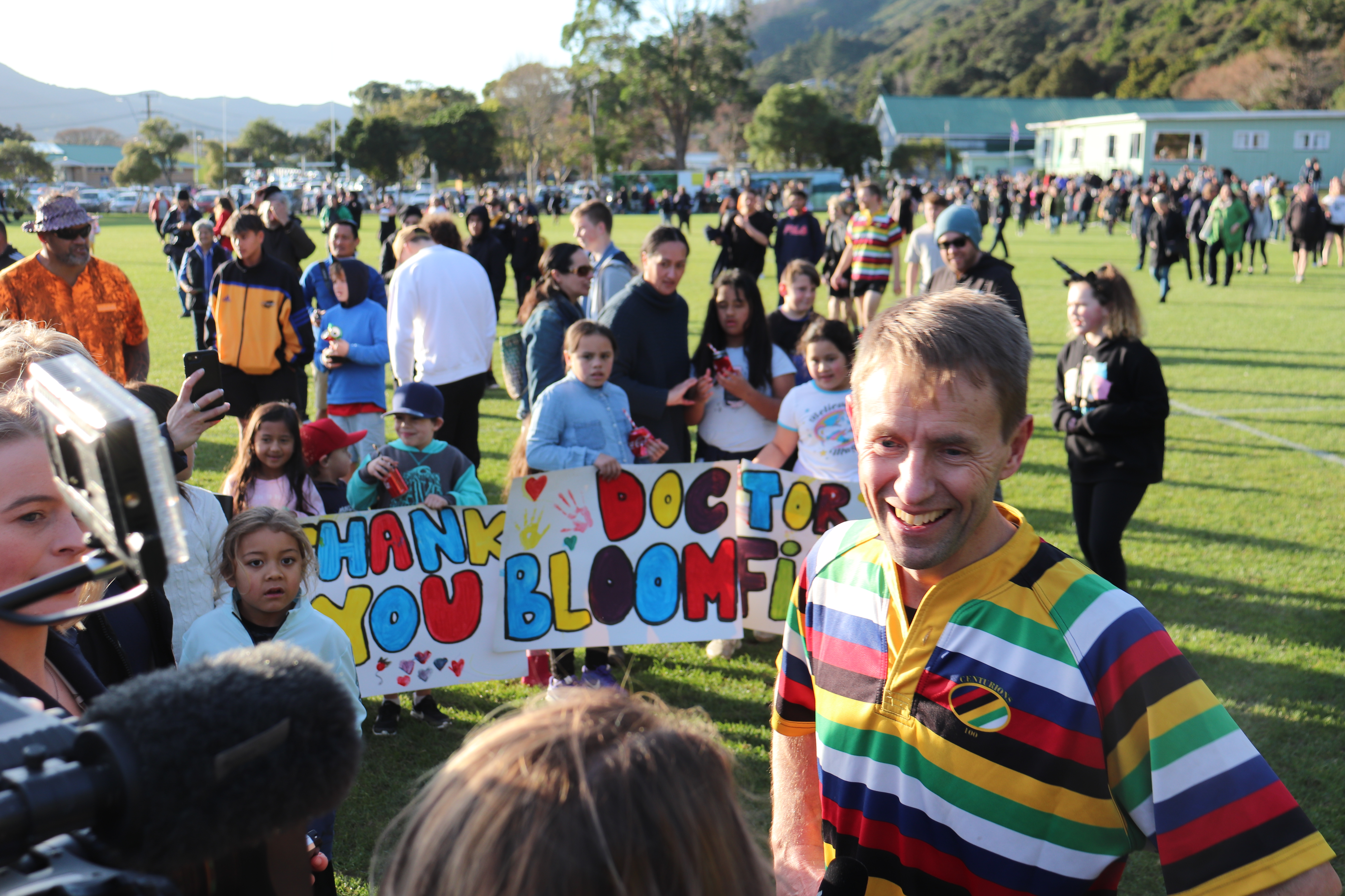 Ashley Bloomfield is in the foreground being interviewed after the 25th annual parliamentary rugby game in Wainuiomata. He is wearing the uniform of the Centurions XV. A sign in the background says 'Thank You Doctor Bloomfield' in reference to the work he did to eliminate COVID-19 from New Zealand.